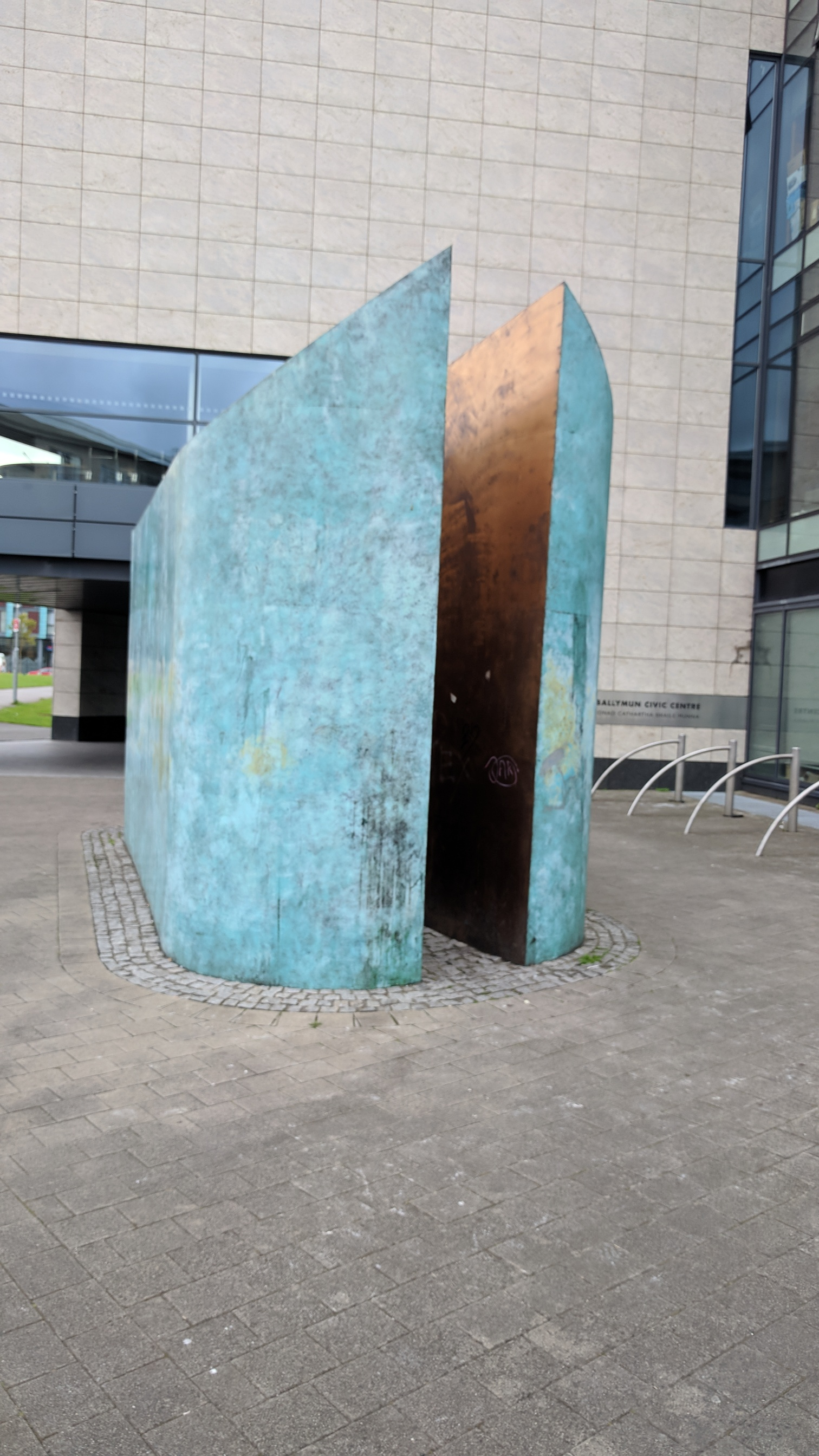 Sculpture in Main St, Ballymun, Dublin, Ireland.